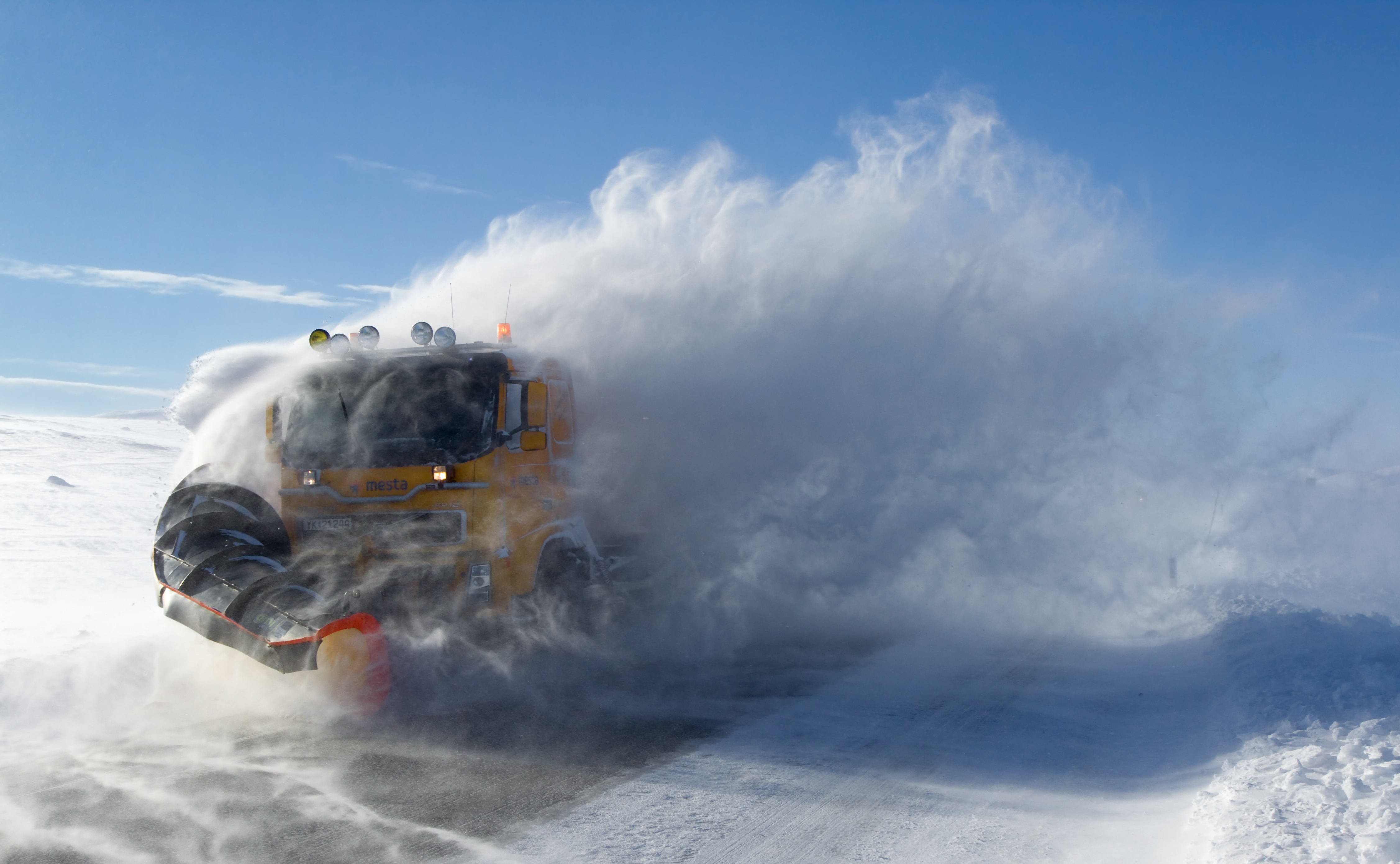 Snowplow working on the Saltfjell in Norway. The strong winds on that day turned this into quite a spectacle. Drifting snow was such a big issue that the plow was working all day long despite the good weather, passing us about once an hour.